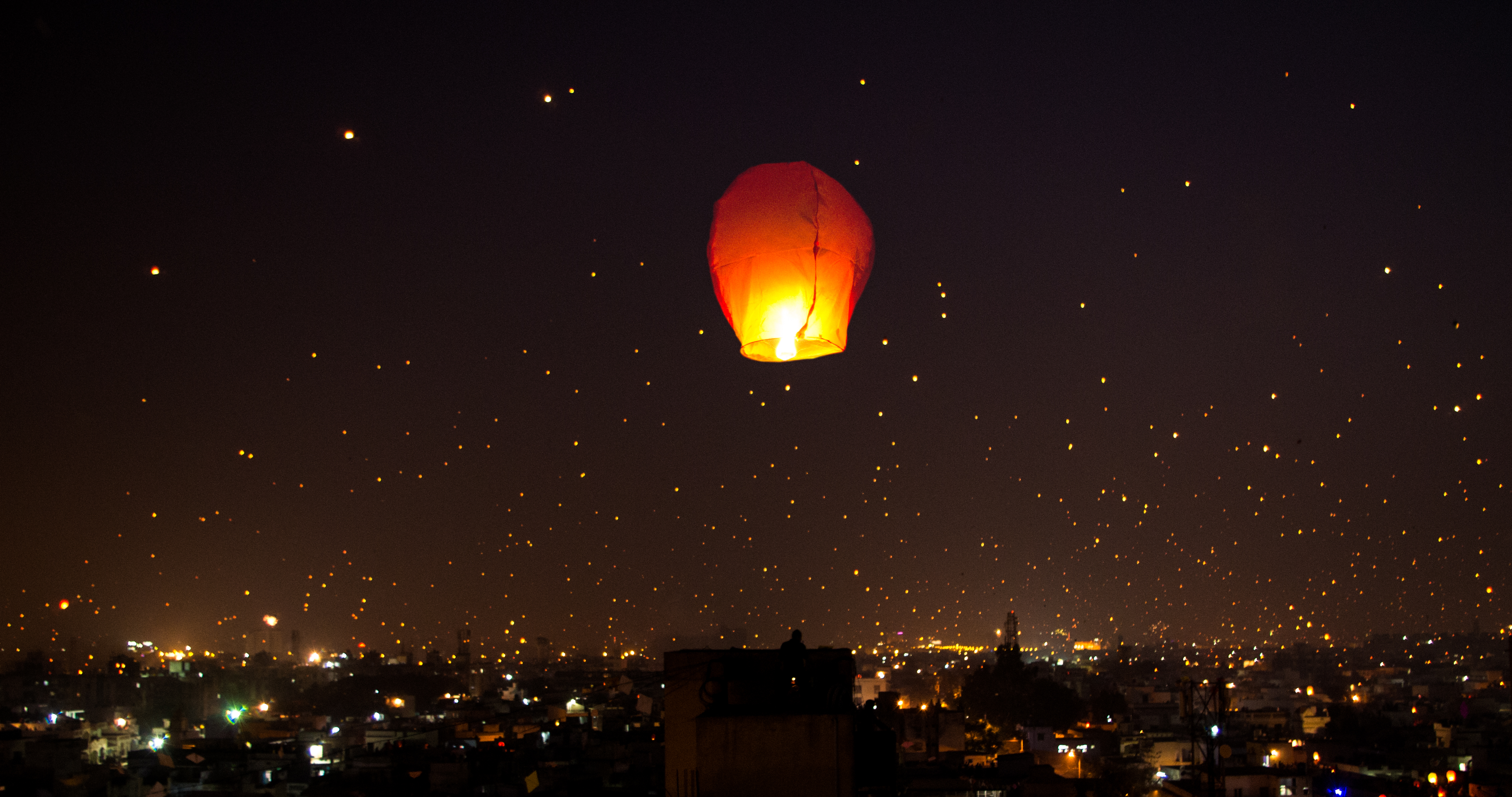 Every 14th of January, people in India celebrate the festival of Makar Sakranti to mark the transition of sun into the zodiac sign of Capricorn (Makar rashi in Hindi, hence the name). In my home state of Gujarat, this festival is called "Uttarayana". One of the main activities associated with this festival is kite flying. During the day, the sky of Ahmedabad is filled with kites that are so numerous that it creates a serious hazard for birds. The rooftops or all buildings are absolutely packed with people taking part in this annual activity and for most of the day, noise all across the city is deafening. But as the night falls, the kites in the sky give way to sky lanterns. As darkness prevails, the city comes alive with the lights of stunning lanterns slowing ascending into the sky. I hope I have been able to capture and justify this beautiful moment in this photograph.